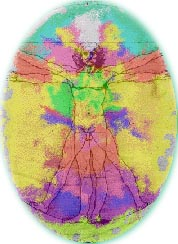 Aura or etheric human bioenergy field